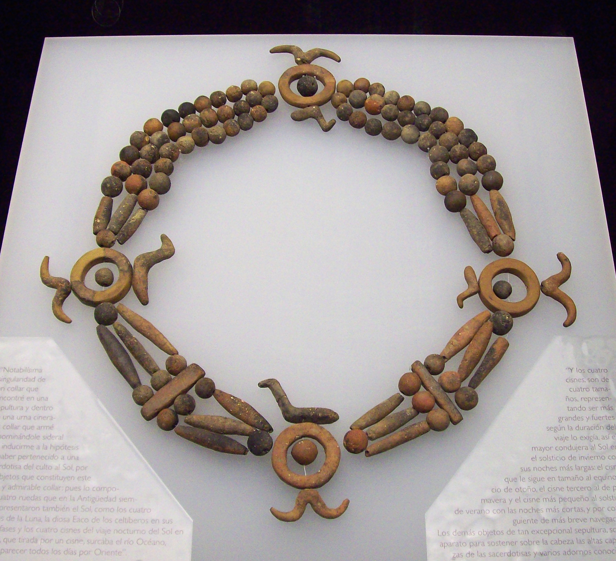 Celtiberian artwork of religious symbolism.